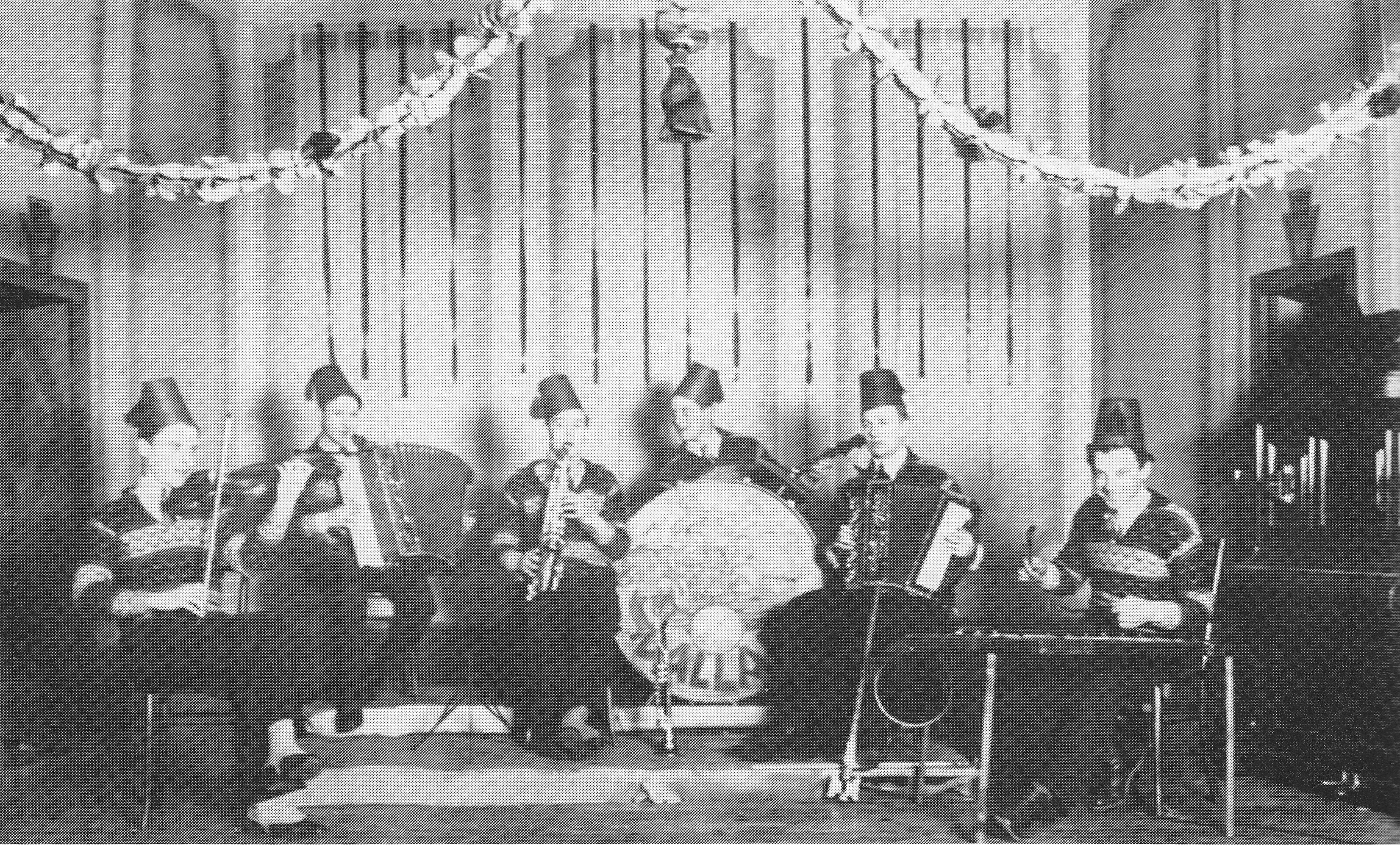 Dallape group